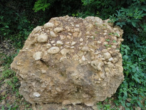 conglomerate of the hill Galgenberg, Bouxwiller, France